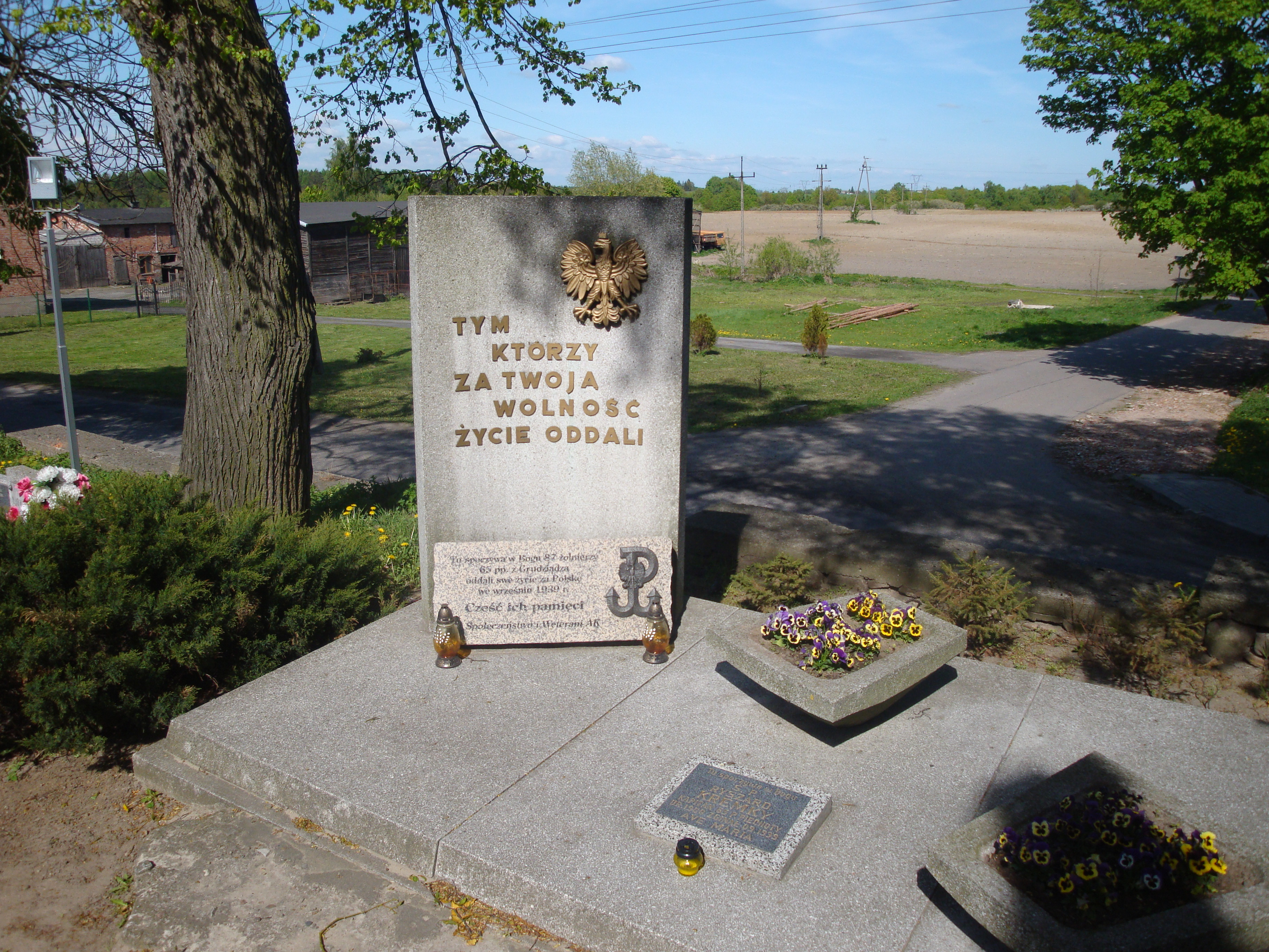 Dąbrówka Królewska-village in Poland. Memorial to died in battle in 1939